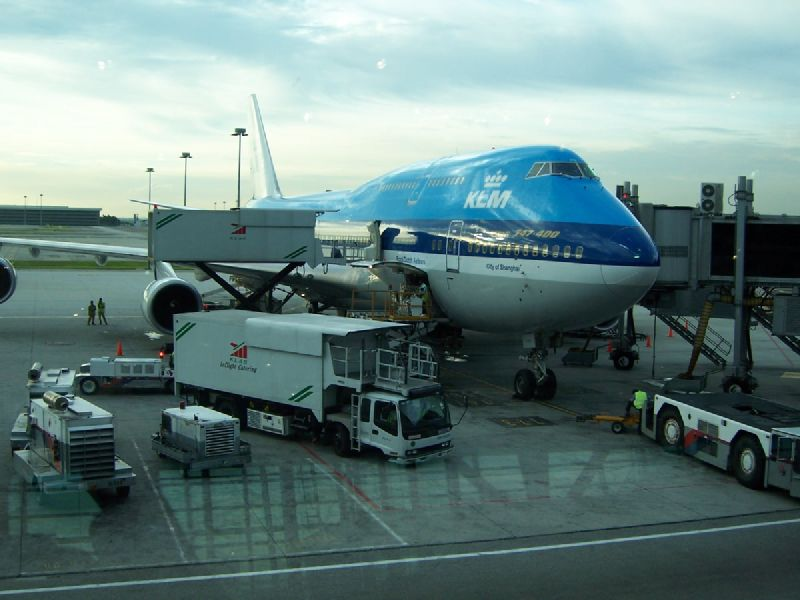 Taken and edited